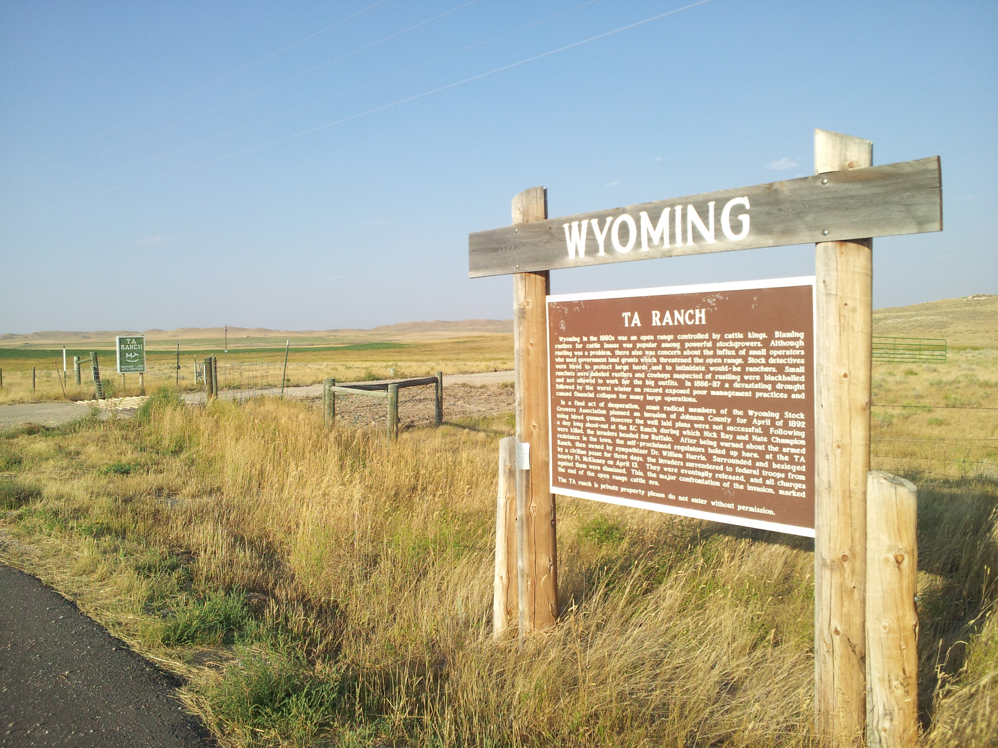 Entrance to the TA Ranch south of Buffalo Wyoming on Wyoming State Road 196